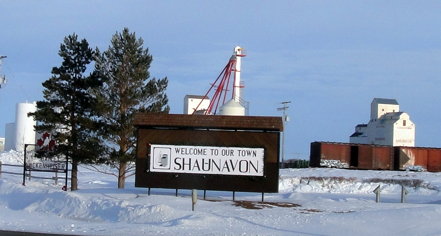 Welcome sign in Shaunavon, Saskatchewan, Canada